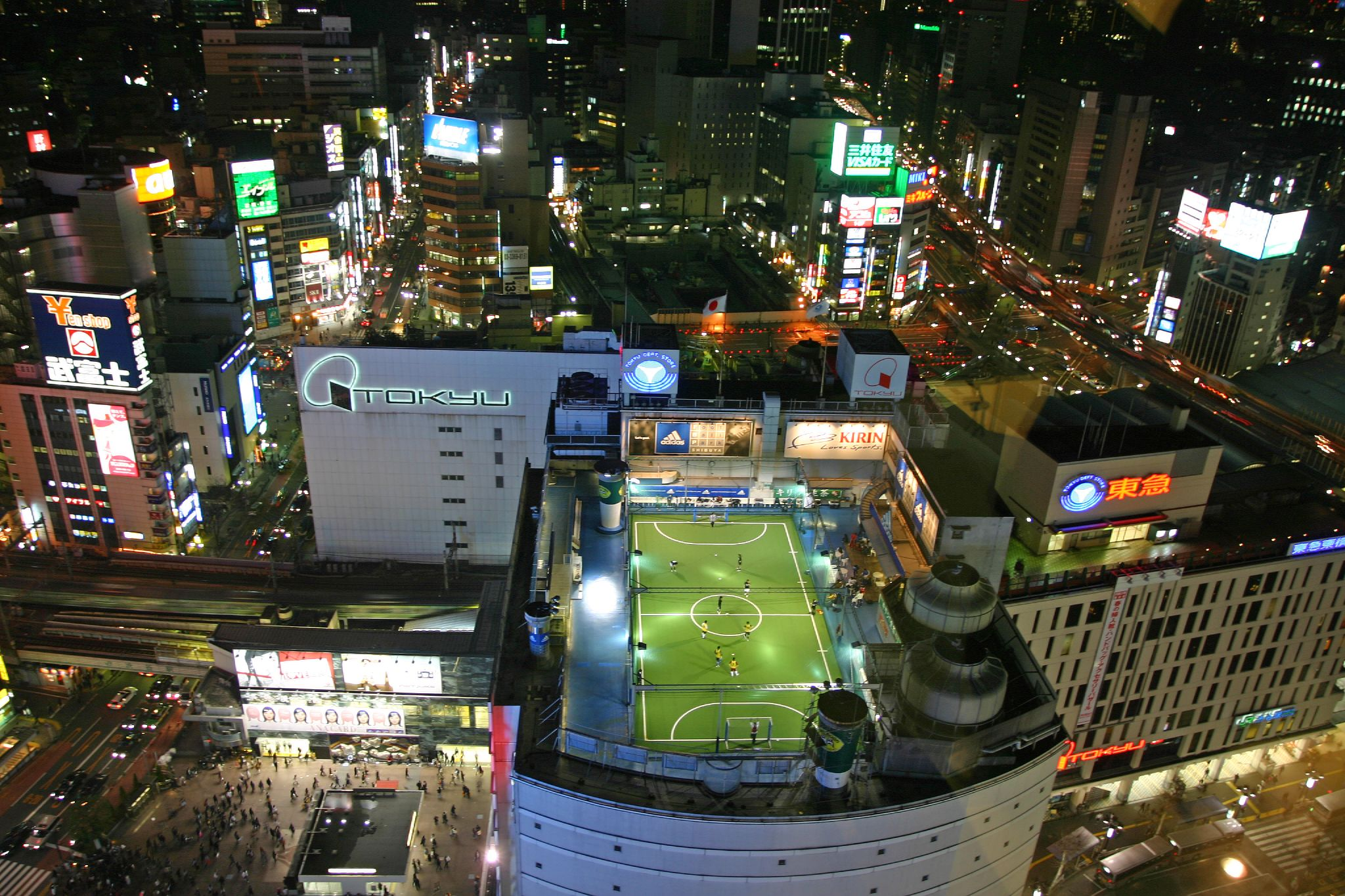 Just next to one of the busiest intersections of Tokyo, a game breaks out